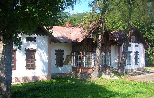 Vygoda police department